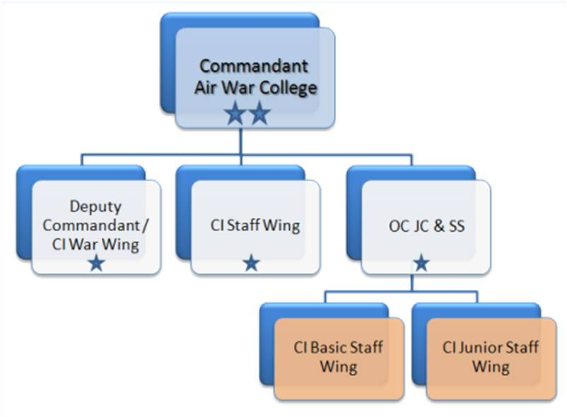 Organisation chart of AWC PAF.